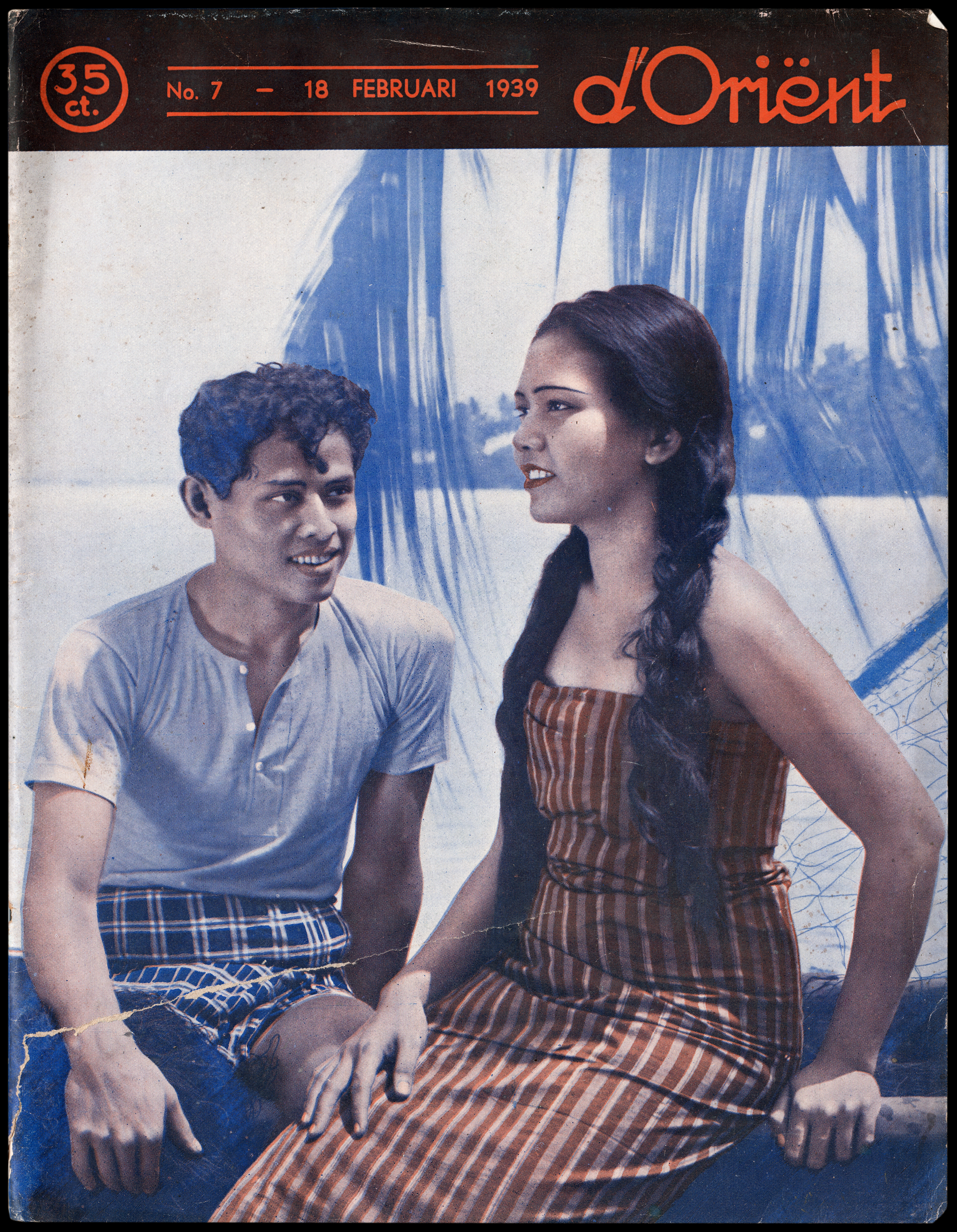 Cover of De Orient, 18 February 1939. Shown are Raden Mochtar and Roekiah in a scene from Fatima